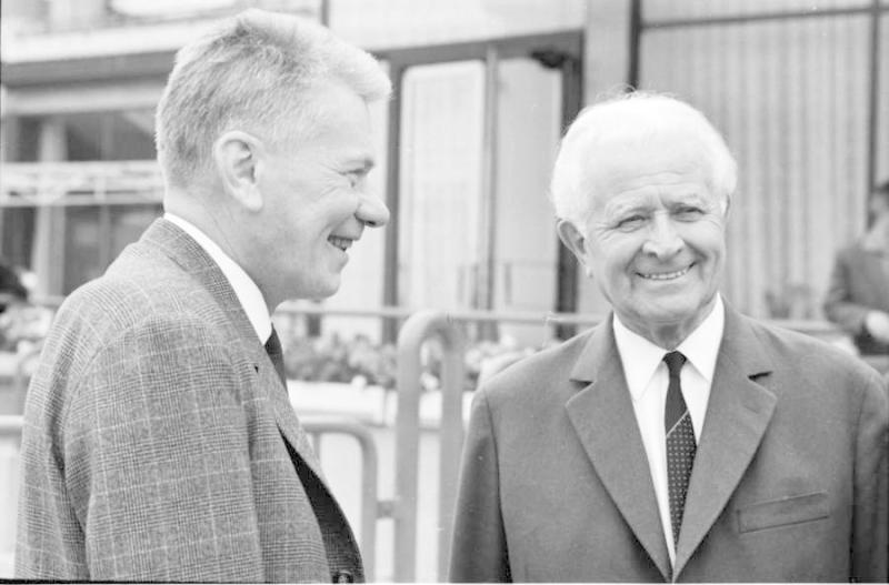 Ludvík Svoboda (President of Czechoslovakia, 1968 – 1975) on right, and Josef Smrkovský